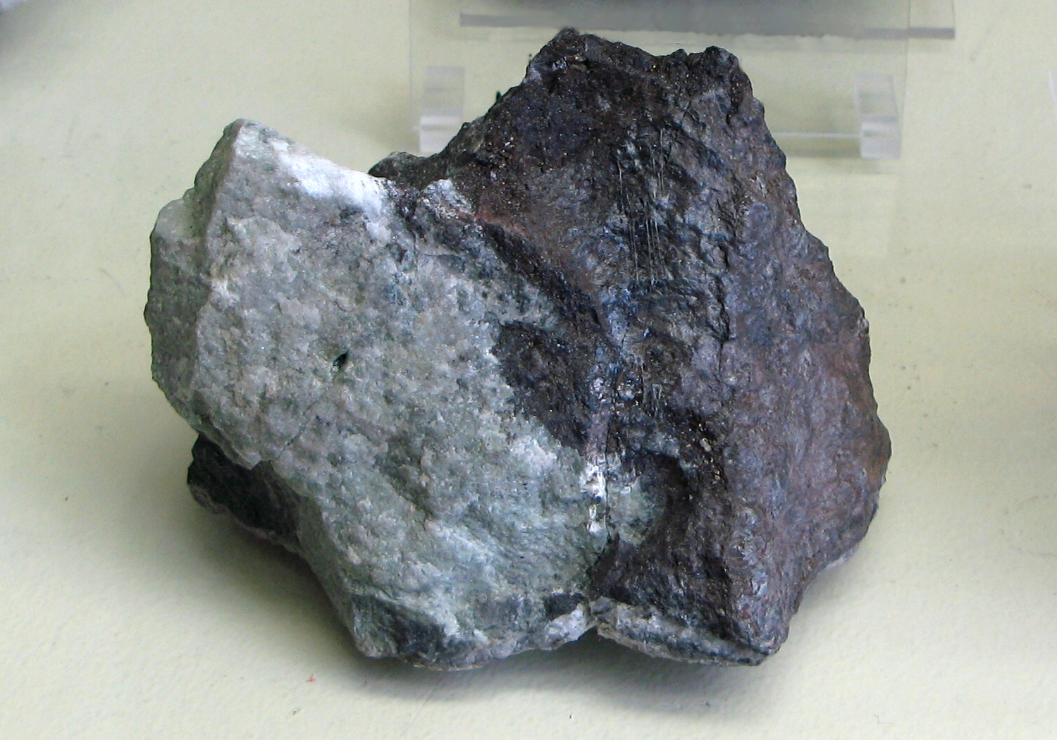 Geocronite - Locality: Sala, Sweden - Exposed in the Mineralogical Museum, Bonn, Germany